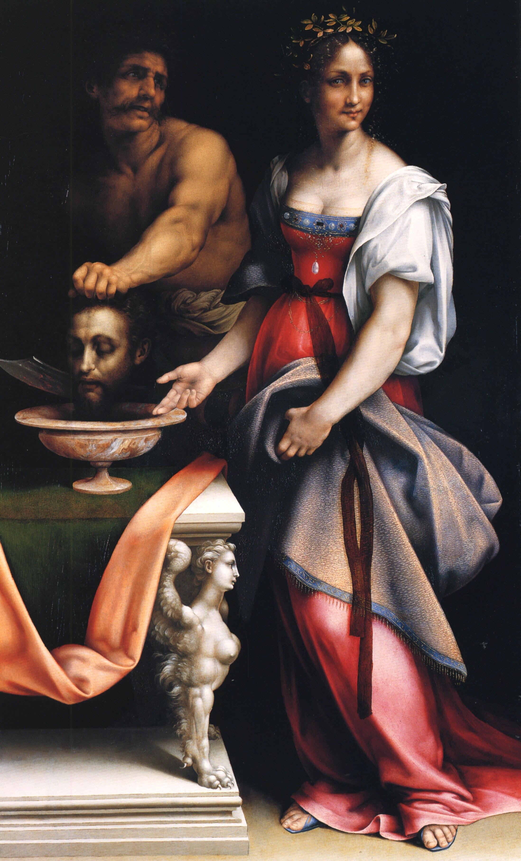 Description Caption from the museum: "Saint John the Baptist was beheaded at the request of Herodias, the wife of Herod, and his head presented to her daughter Salome on a charger. Salome then brought the head to her mother. New Testament (Matthew 14:1-12). There is another version of identical quality, different only in small details (Vienna, Kunsthistorisches Museum), and other versions are recorded elsewhere. There are four drawings related to the composition of this picture and that in Vienna; some drawings in pigment are also to be seen on the unprimed wood of the reverse of this picture. These do not appear to be related to the composition and may represent Christ appearing to the Magdalen."